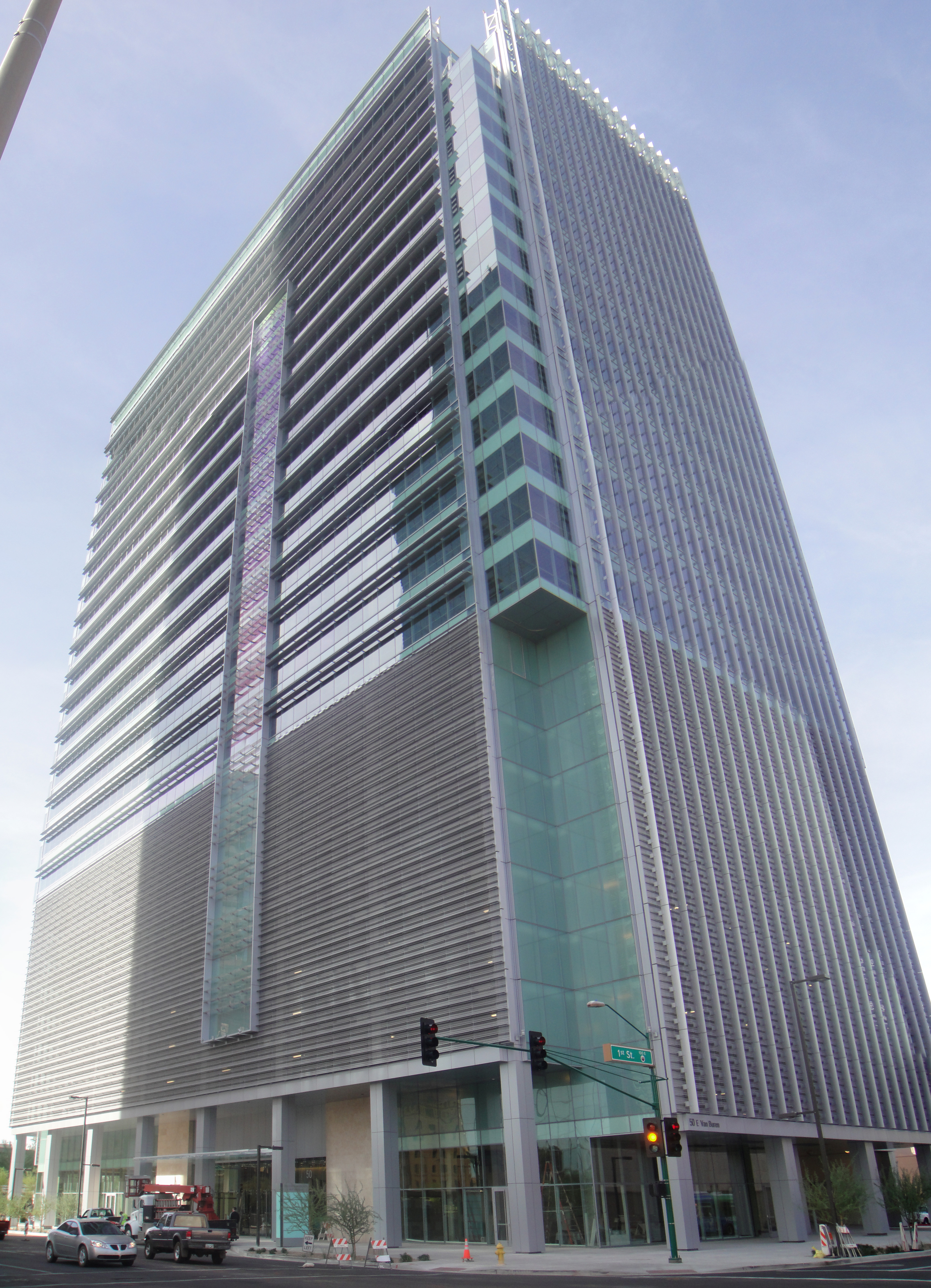 Photo of One Central Park East in Downtown Phoenix, Arizona near completion in October 2009